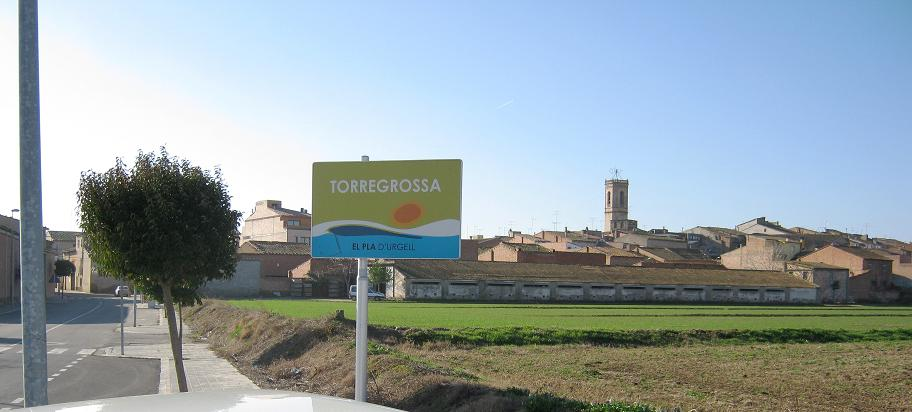 Torregrossa view